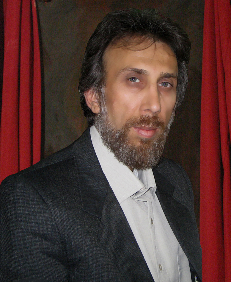 Hossein Shahabi 2013